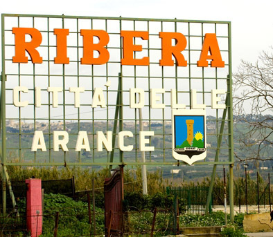 Advertising Ribera City of Oranges SS115 way Verdura Ribera (AG)